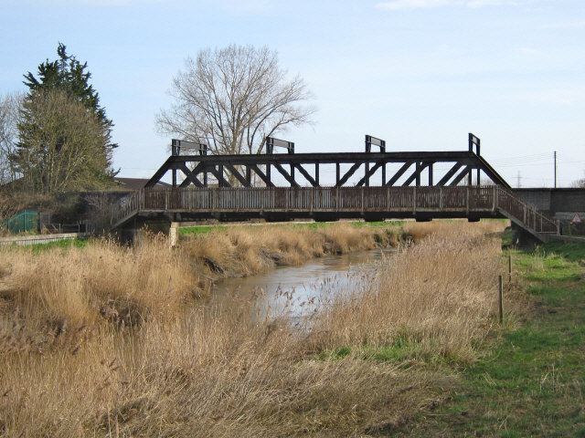 Railway bridge over the River Parrett